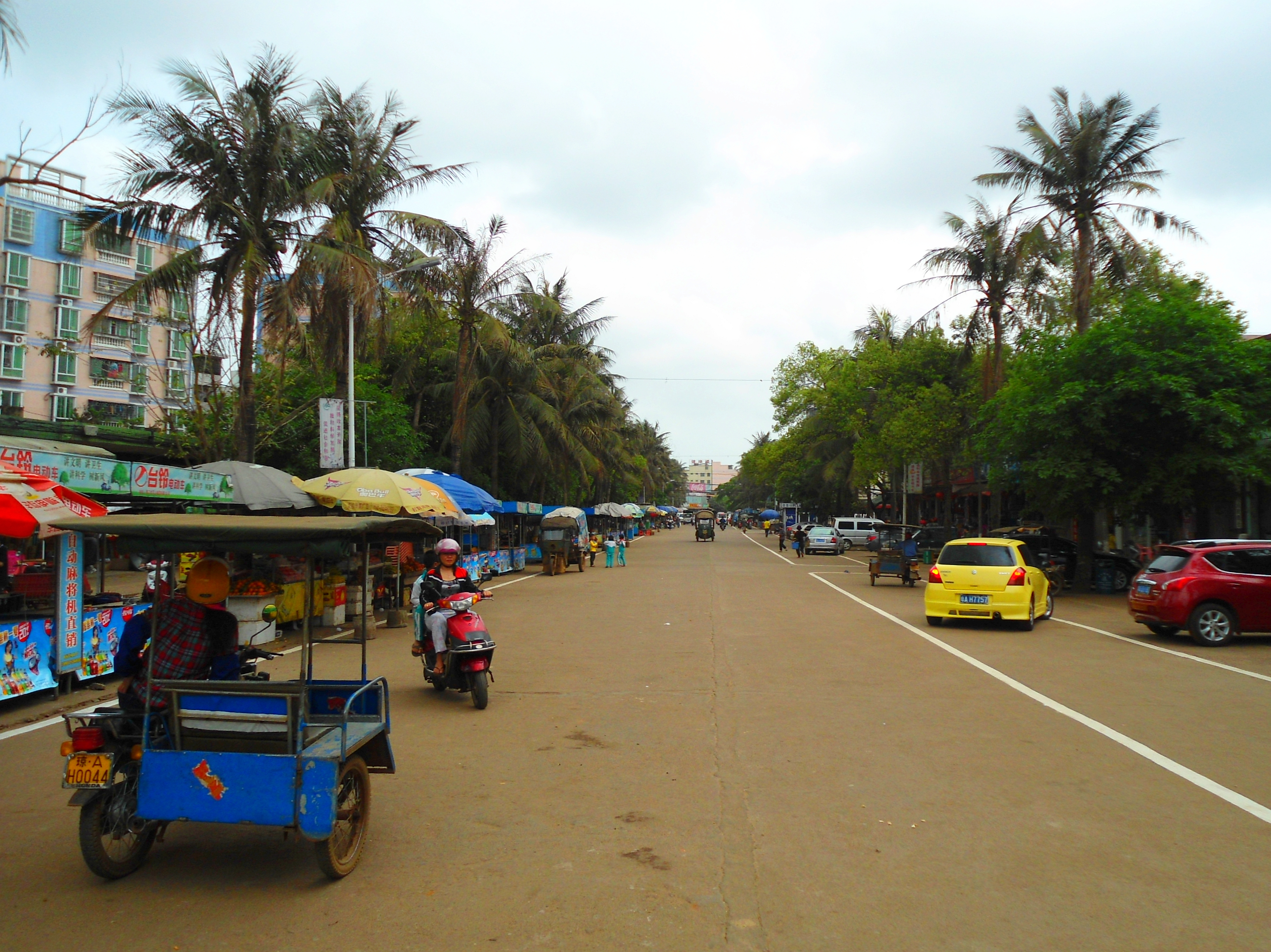 Lingshan Town, main shopping road, Hainan Province, People's Republic of China.